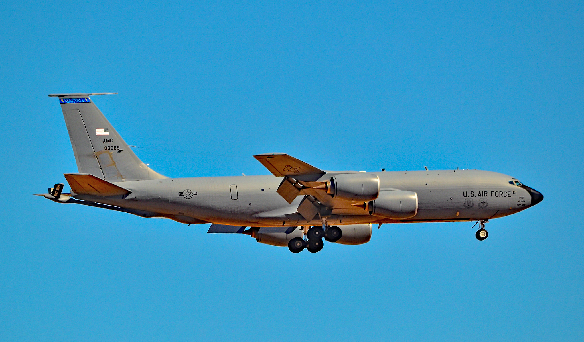 MacDill Air Force Base, Florida. Red Flag 16-3 Las Vegas - Nellis AFB (LSV / KLSV) TDelCoro July 19, 2016